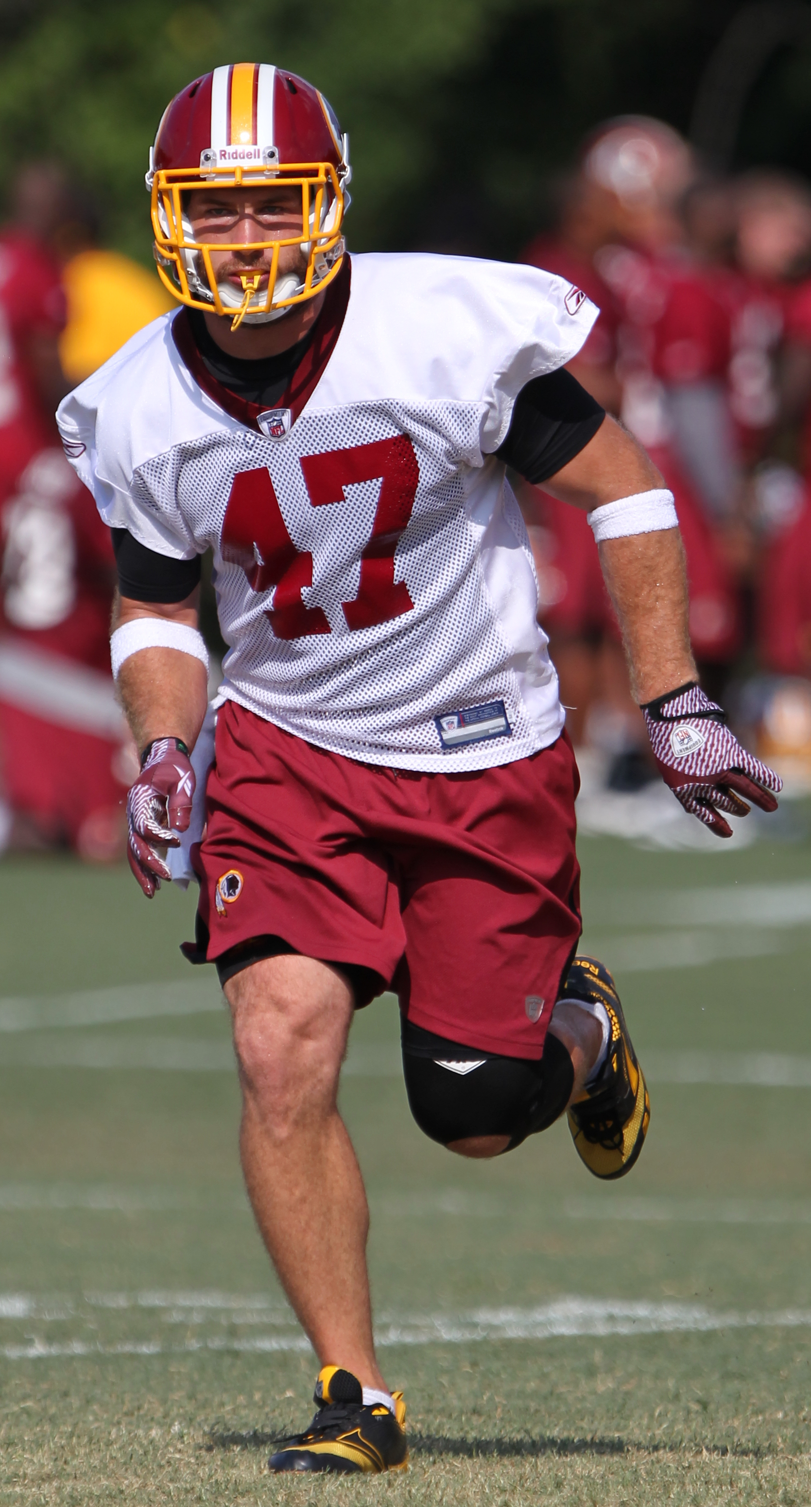 Chris Cooley at Washington Redskins Training Camp August 4, 2011